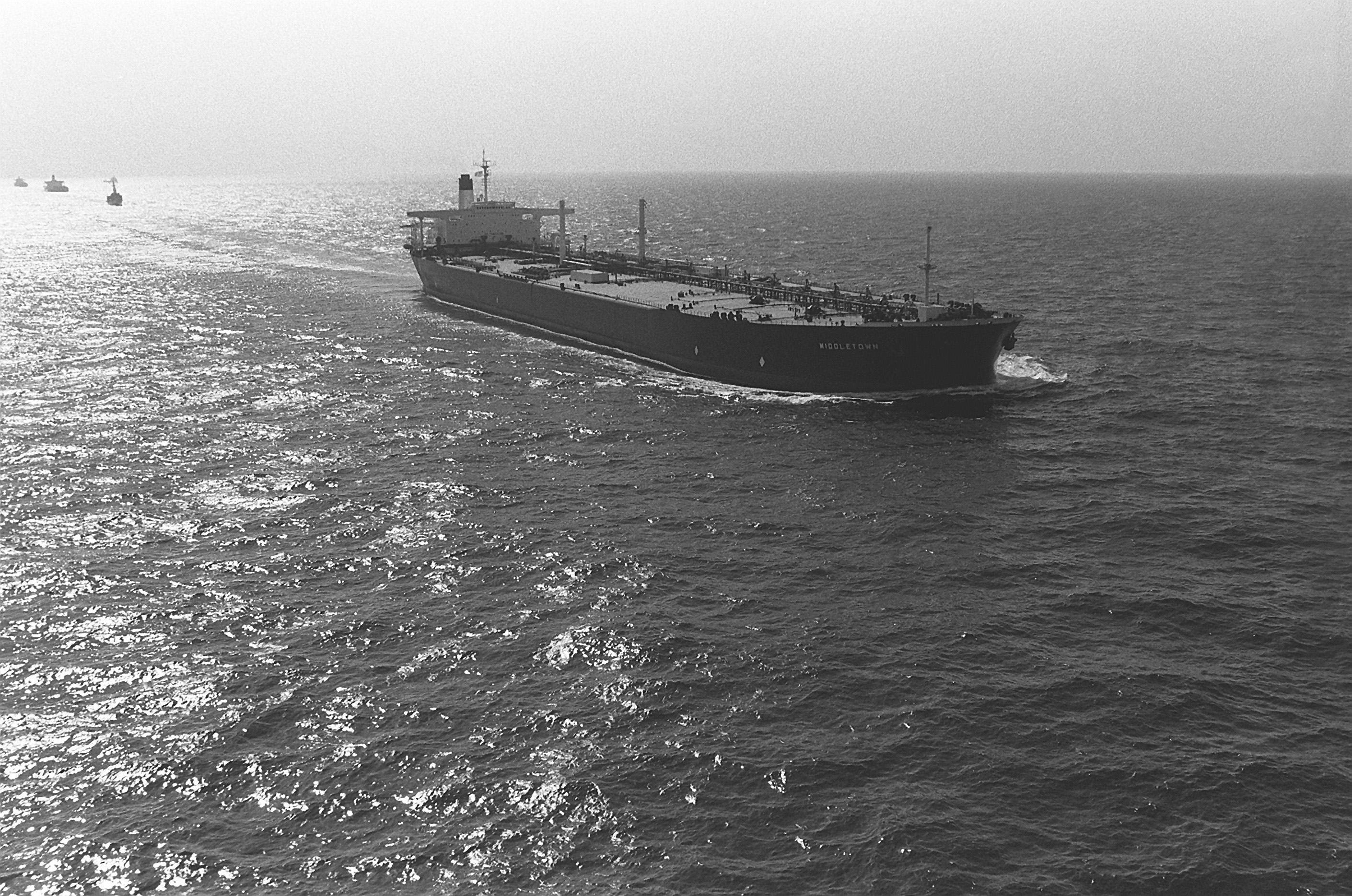 A starboard bow view of the oil tanker SS MIDDLETOWN underway during an Earnest Will convoy mission in which tankers are escorted through waters of the Gulf by U.S. naval ships. ID: DN-SN-88-10144